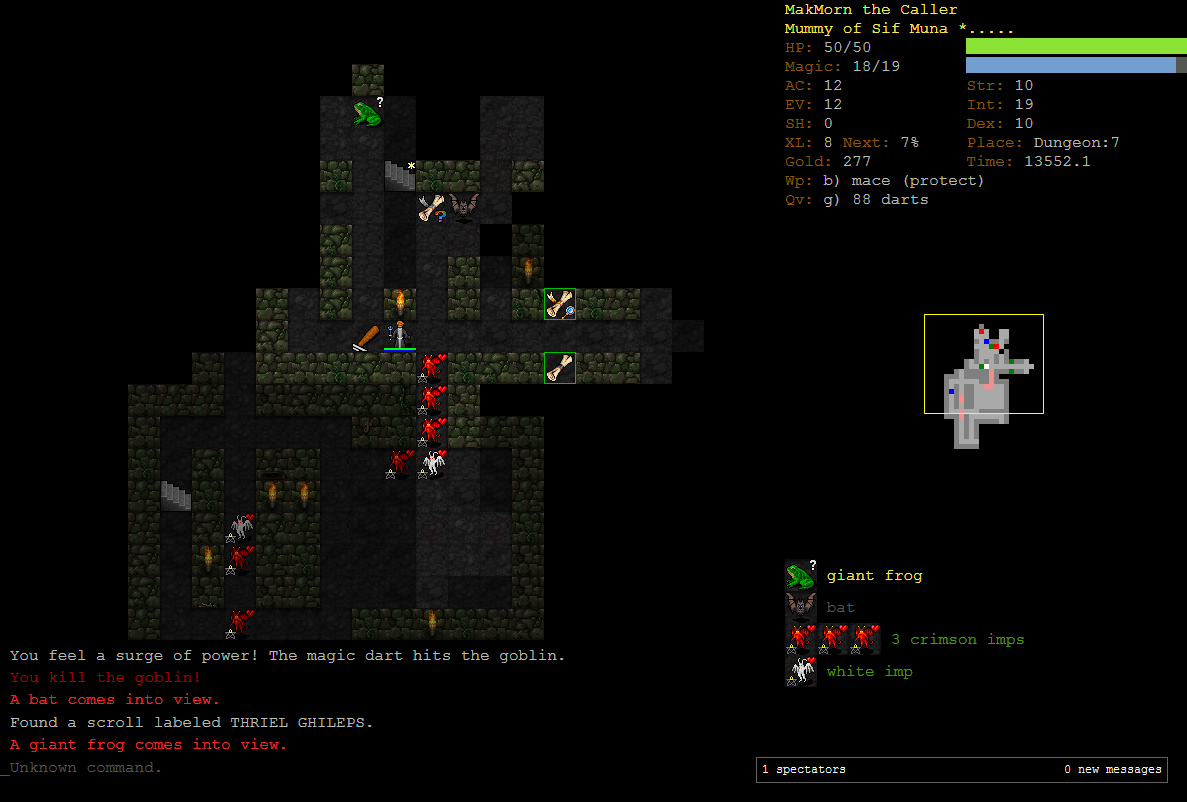 The Dungeon